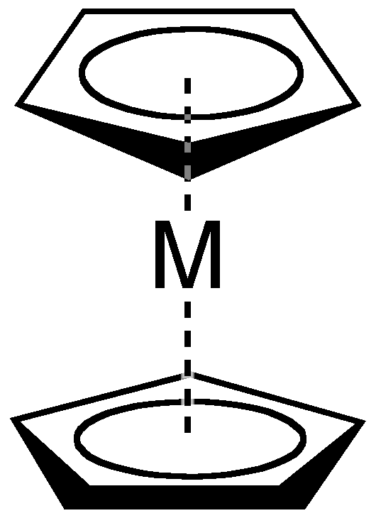 Chemical structure of Metallocene with generic metal cation M in the center sandwiched between two cyclopentadienyl anions, which are planar and parallel to each other, but staggered.